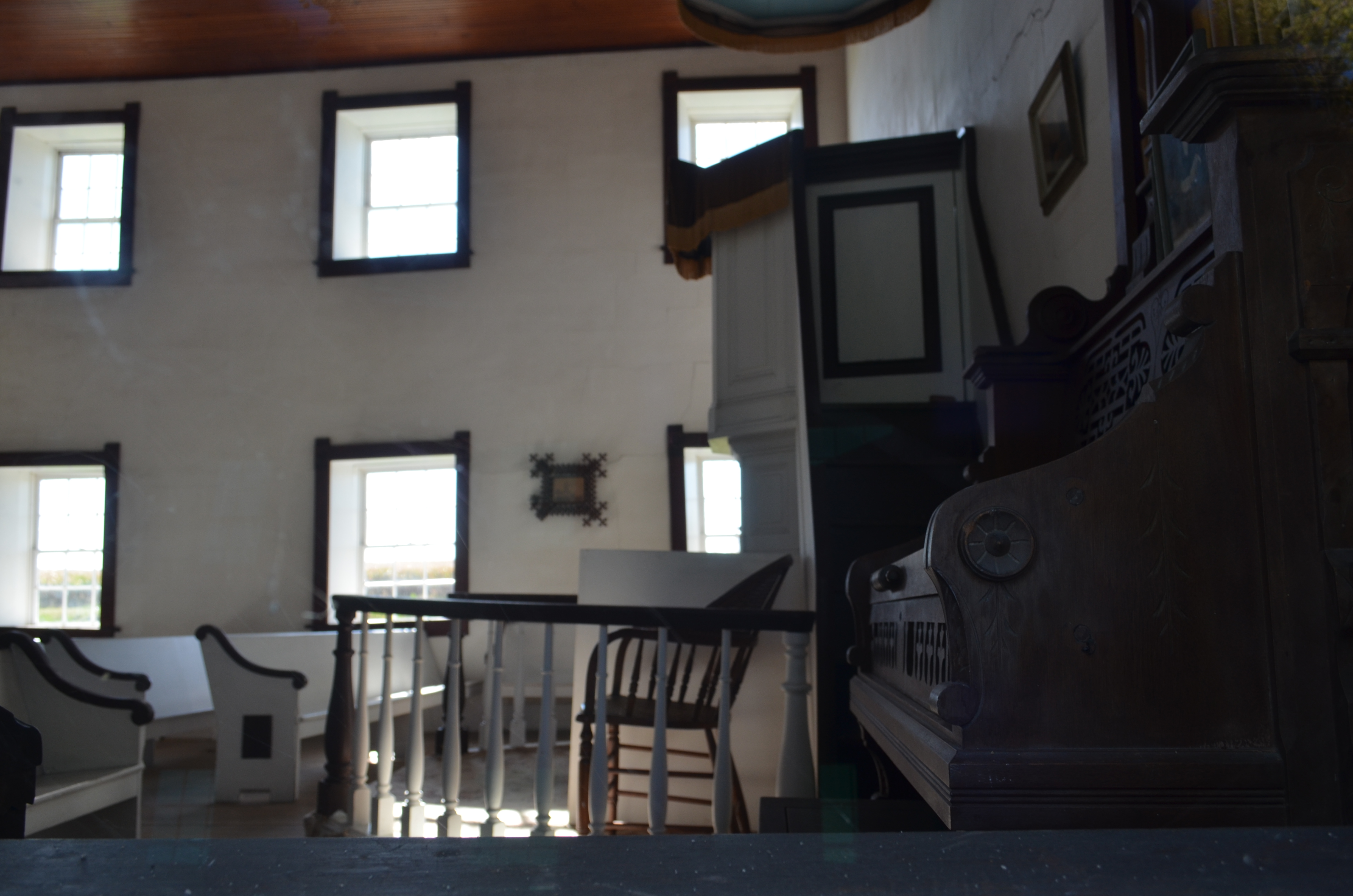 View through the window of St. Peters United Evangelical Lutheran Church, Ceres, Iowa